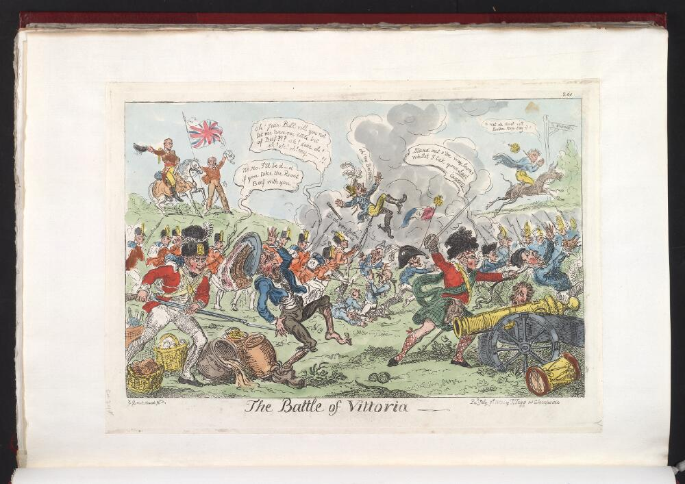 Satire on the Peninsular war. (British political cartoon); Commemorates the battle of Vittoria, a victory for the British on 21 June, 1813.; Publisher's number: 201